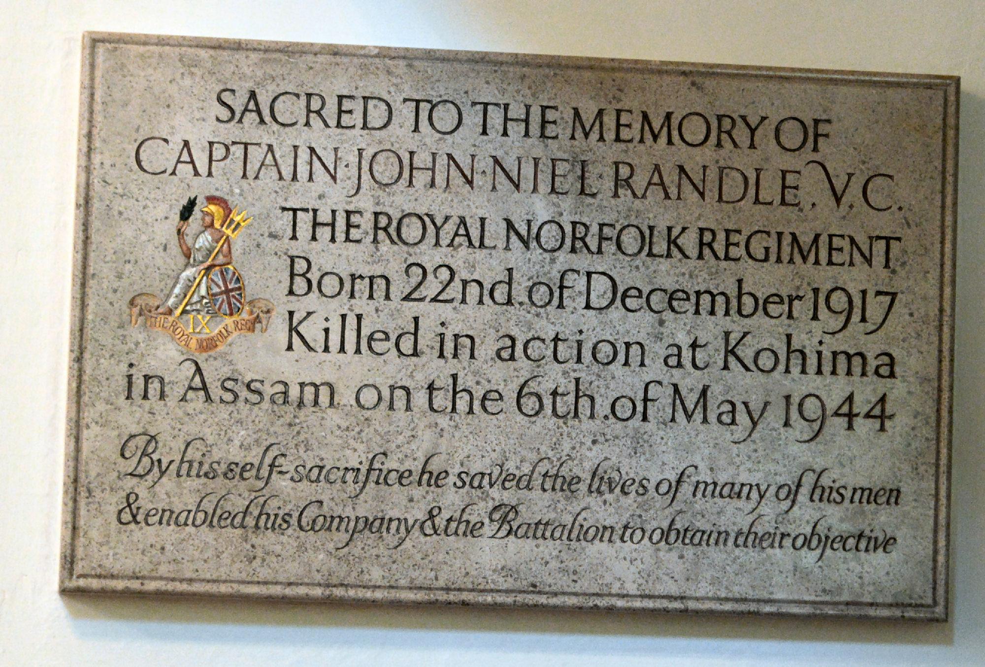 St Peter's Church, Petersham, Capt John Niel Randle, VC memorial. John Niel Randle VC (22 December 1917 – 6 May 1944) was a recipient of the Victoria Cross